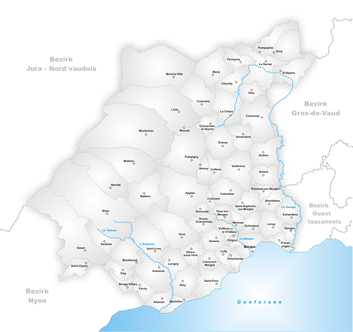 Municipalities of District Morges from 2008